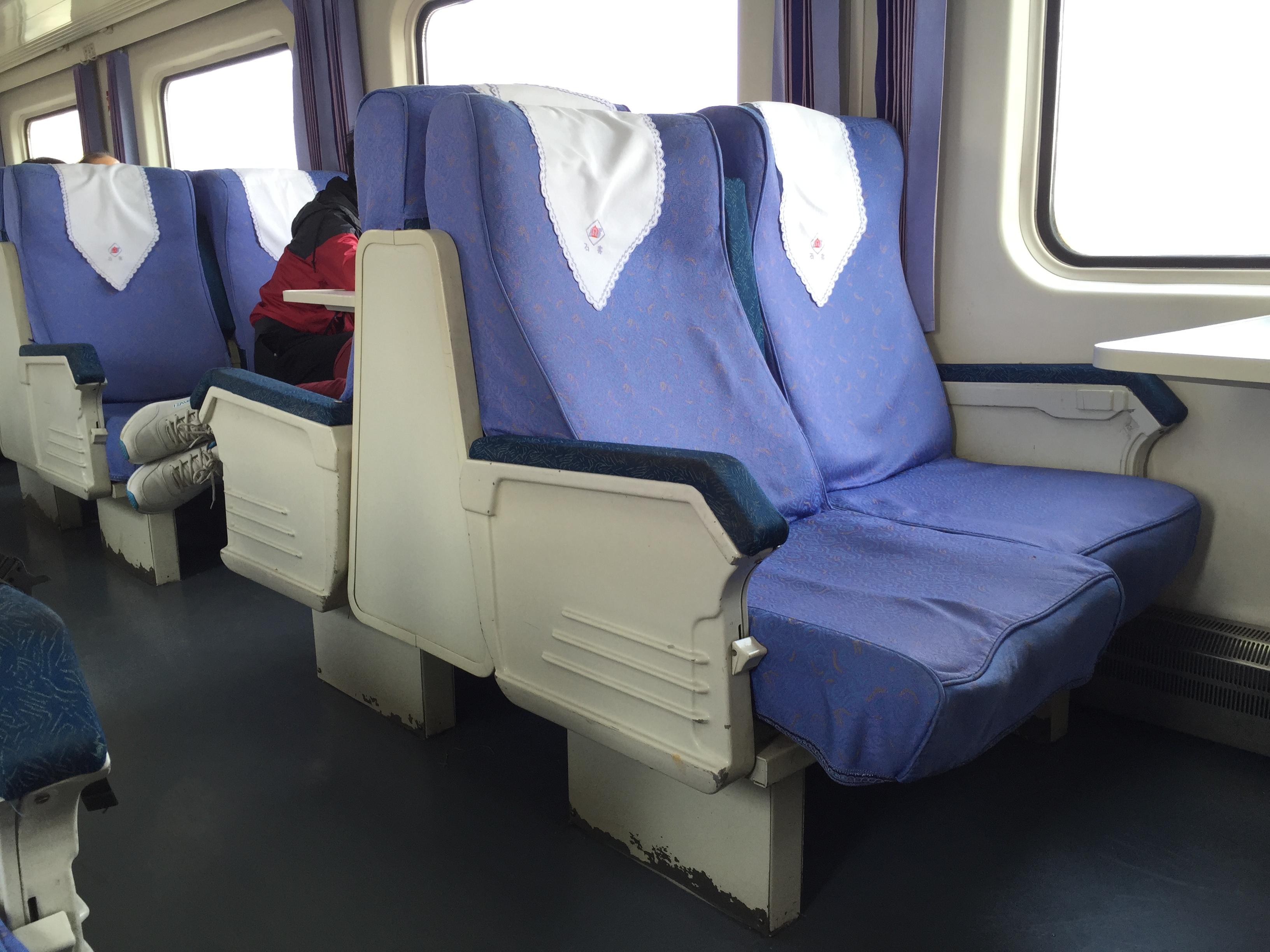 With the outer reclined.